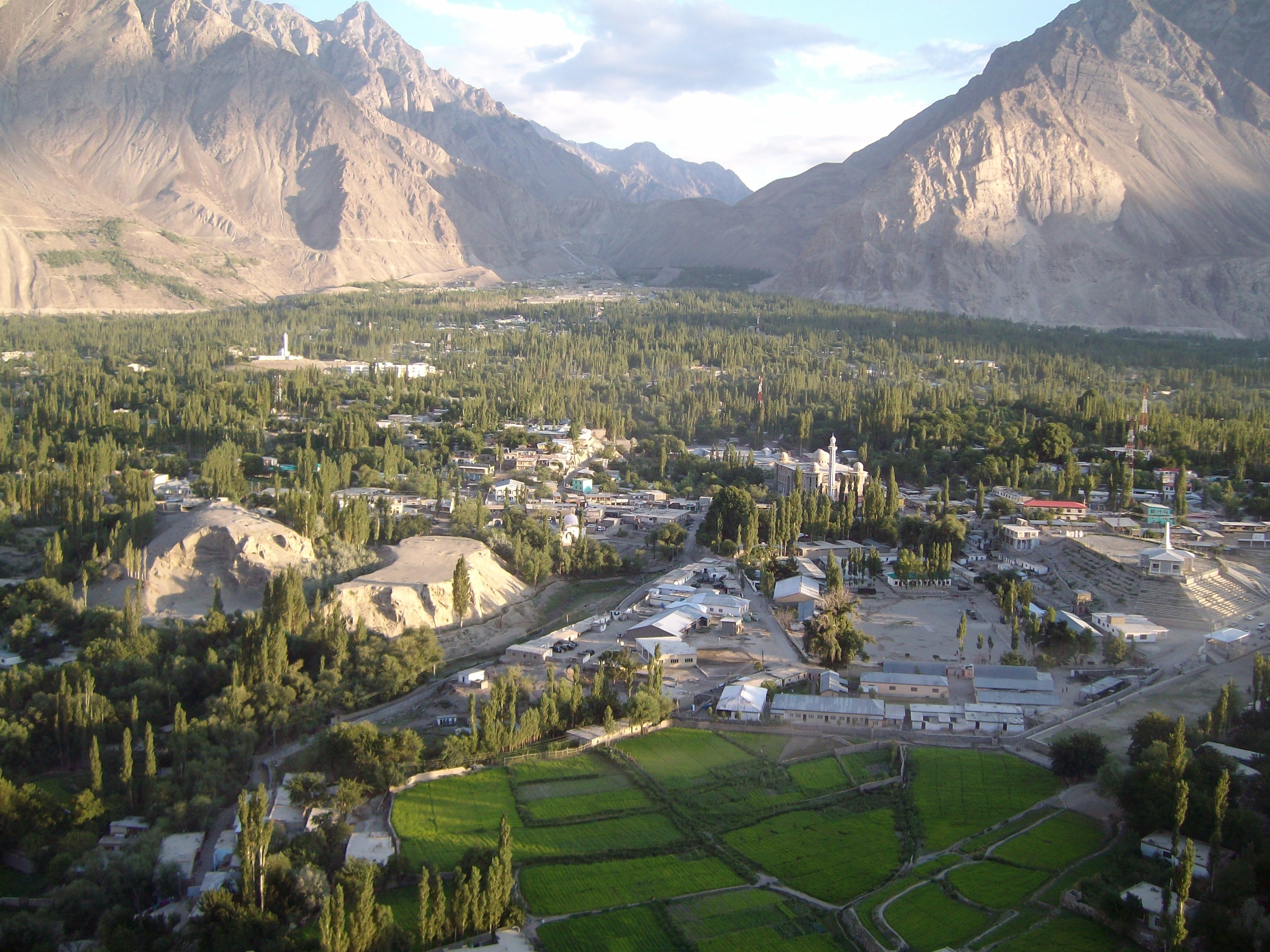 A beautiful view of Skardu city in evening from Kharpocho Fort Skardu